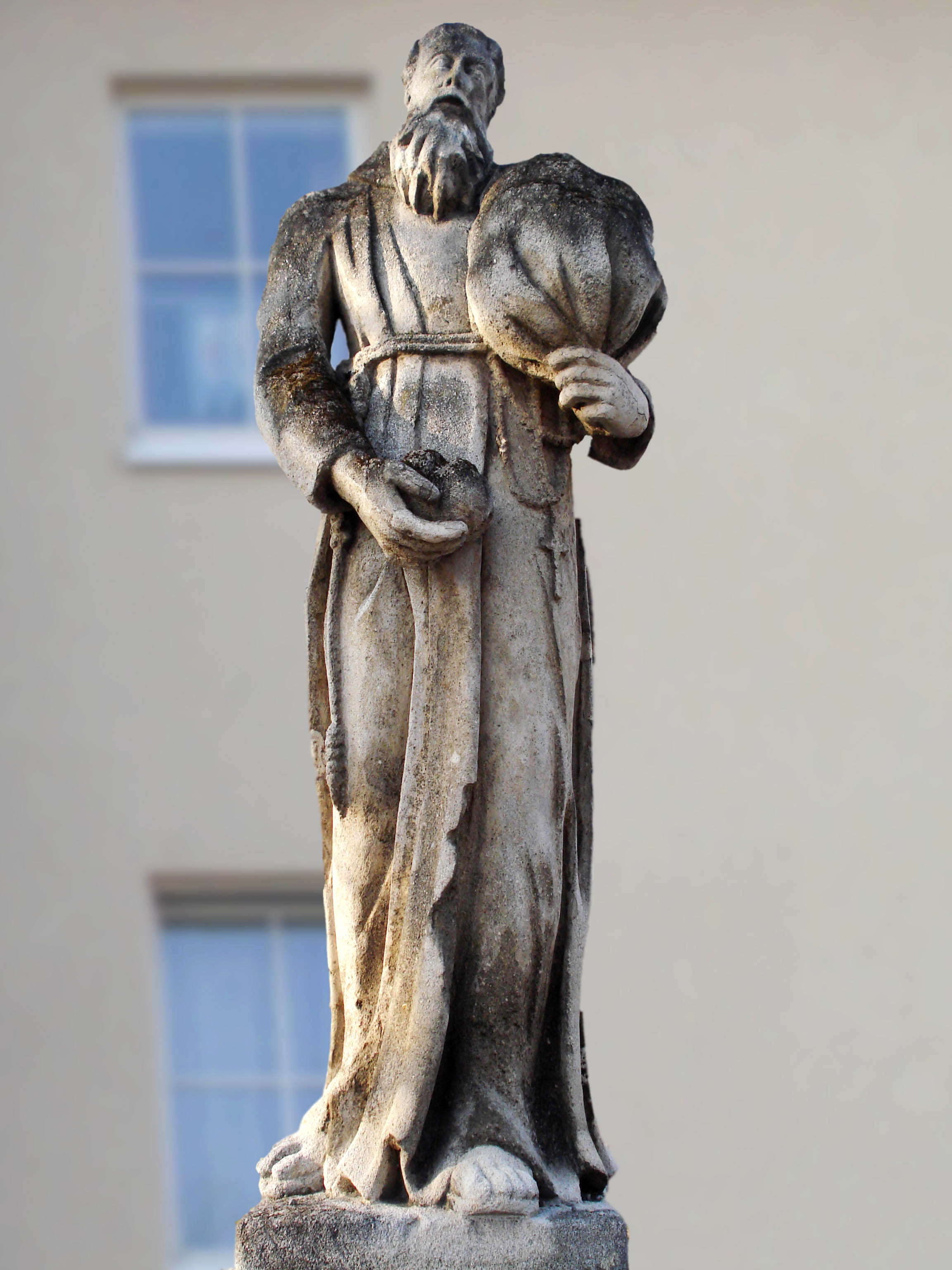 Felix Mießl, Edler von Treuenstadt (born July 10 1778 in plates at Eger, +13 Apr 1861 in Wiener Neustadt.). Mayor of Wiener Neustadt (1816 to 1848). Founder of Felixdorf (NÖ).